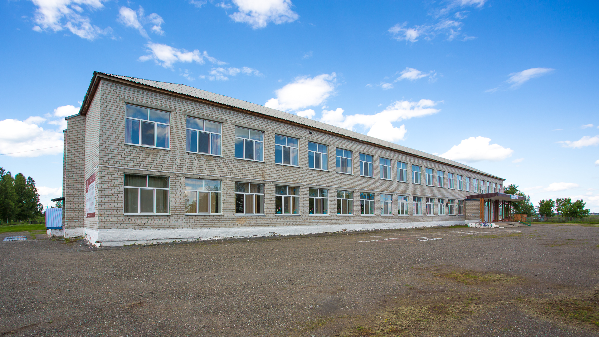 Tushnolobovskaya secondary school, Abat district